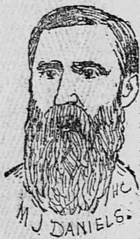 MIlton J. Daniels, California Congressman.